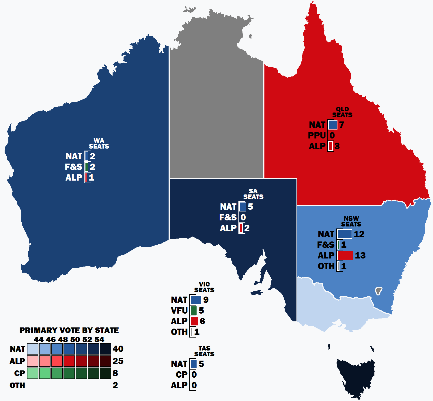 Result of the primary vote by state in the 1919 Australian federal election.